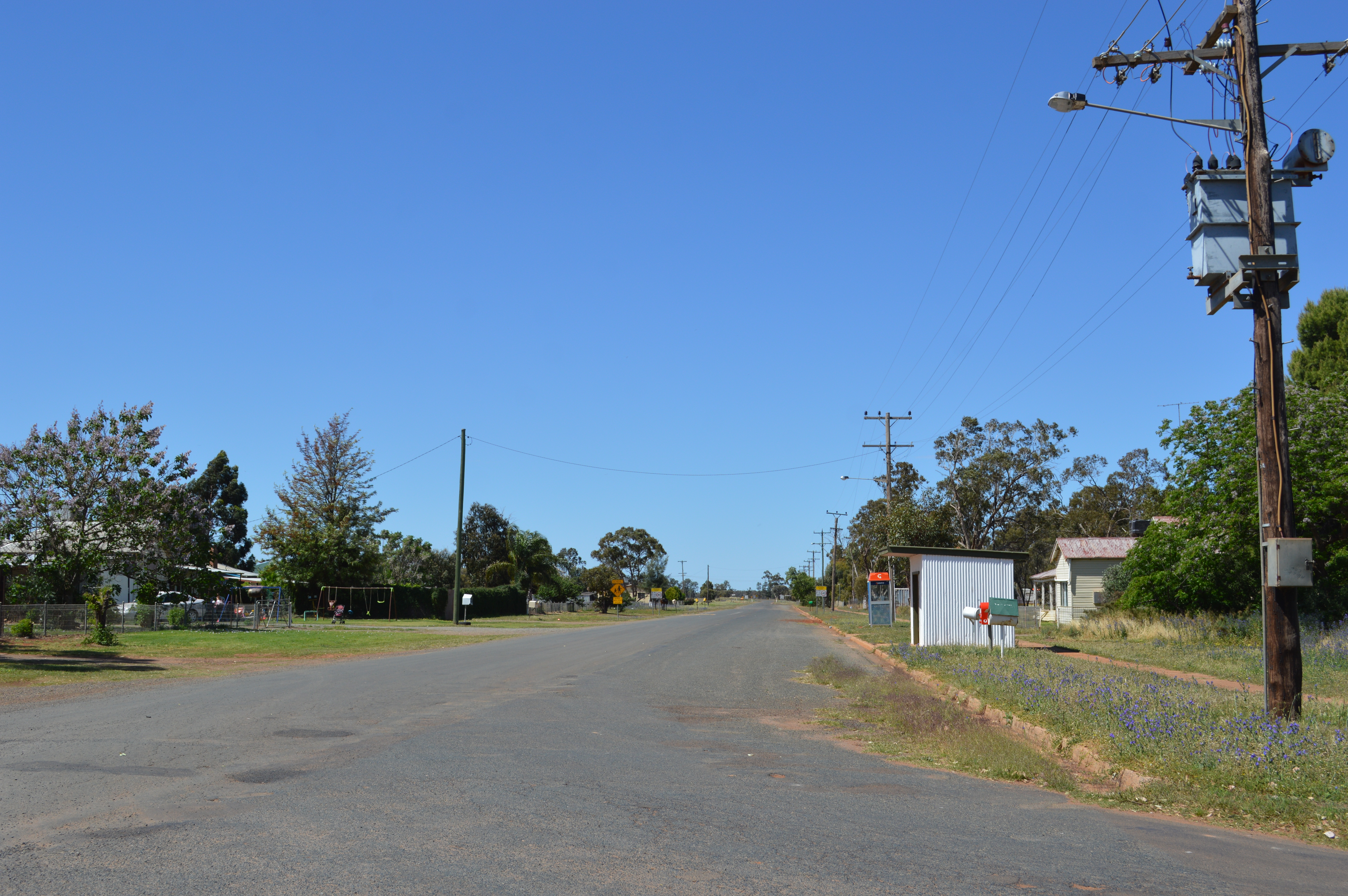 Uabba Street, the main street, at Euabalong West, New South Wales